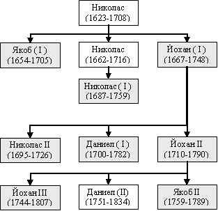 Genealogy tree of the Bernoulli mathematical dynasty (in Bulgarian). Names from top down (left to right): Nikolas Jakob (I) Nikolas Johann (I) Nikolas (I) Nikolas (II) Daniel (I) Johann (II) Johann (III) Daniel (II) Jakob (II) Daniel (II) also had 2 sons: Christoph Johann Gustav Information